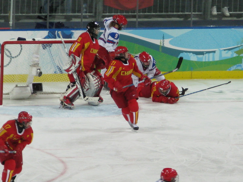 China forward Jiang Na (#21 in red) starts to move up ice against Russia during the 2010 Winter Olympics; forward Cui Shanshan (#17, foreground) watches the play.